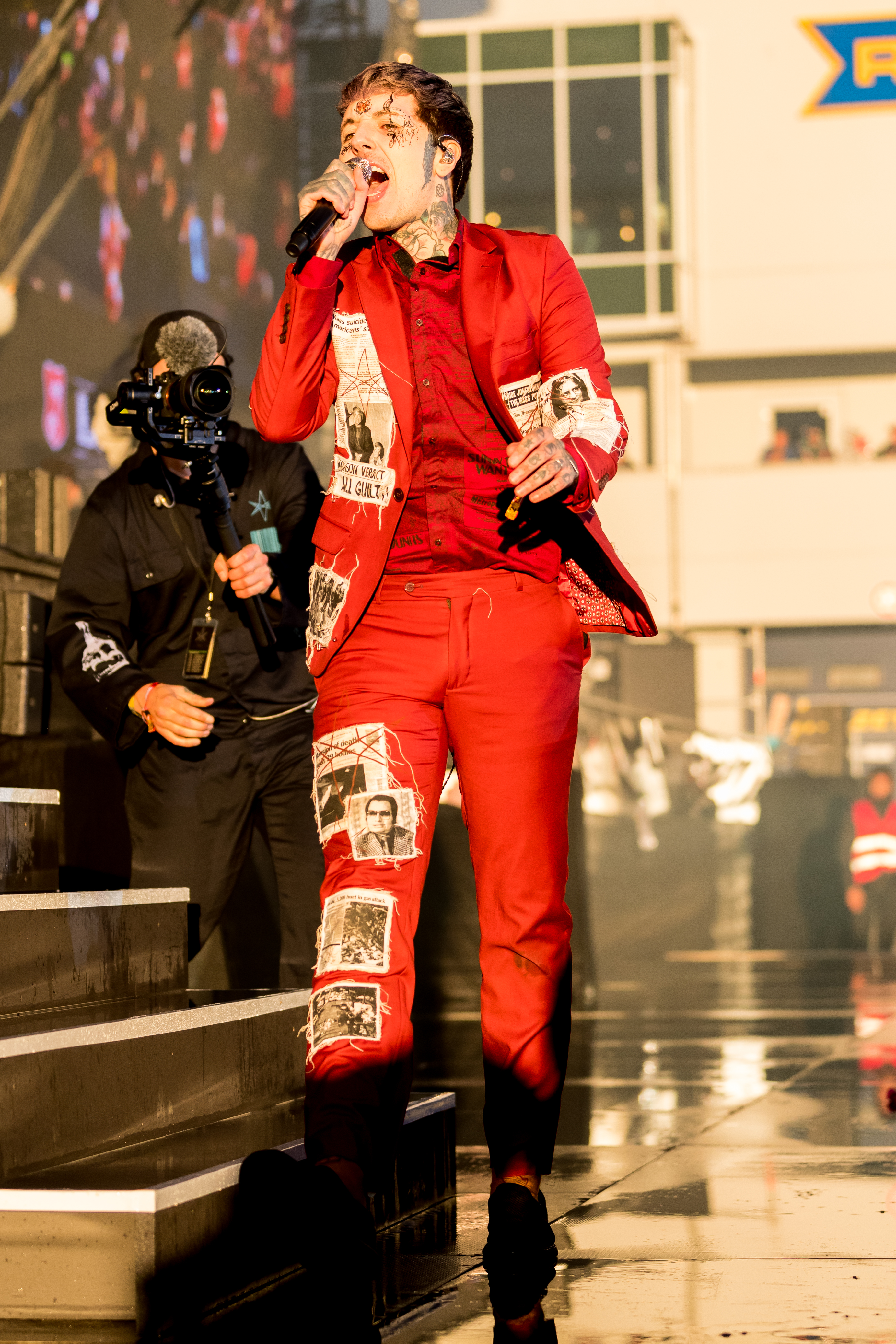 Bring me the Horizon during Rock am Ring ( at Nürburgring, Rheinland-Pfalz, Germany on 2019-06-08, Photo: Sven Mandel Promotion by Live Nation (